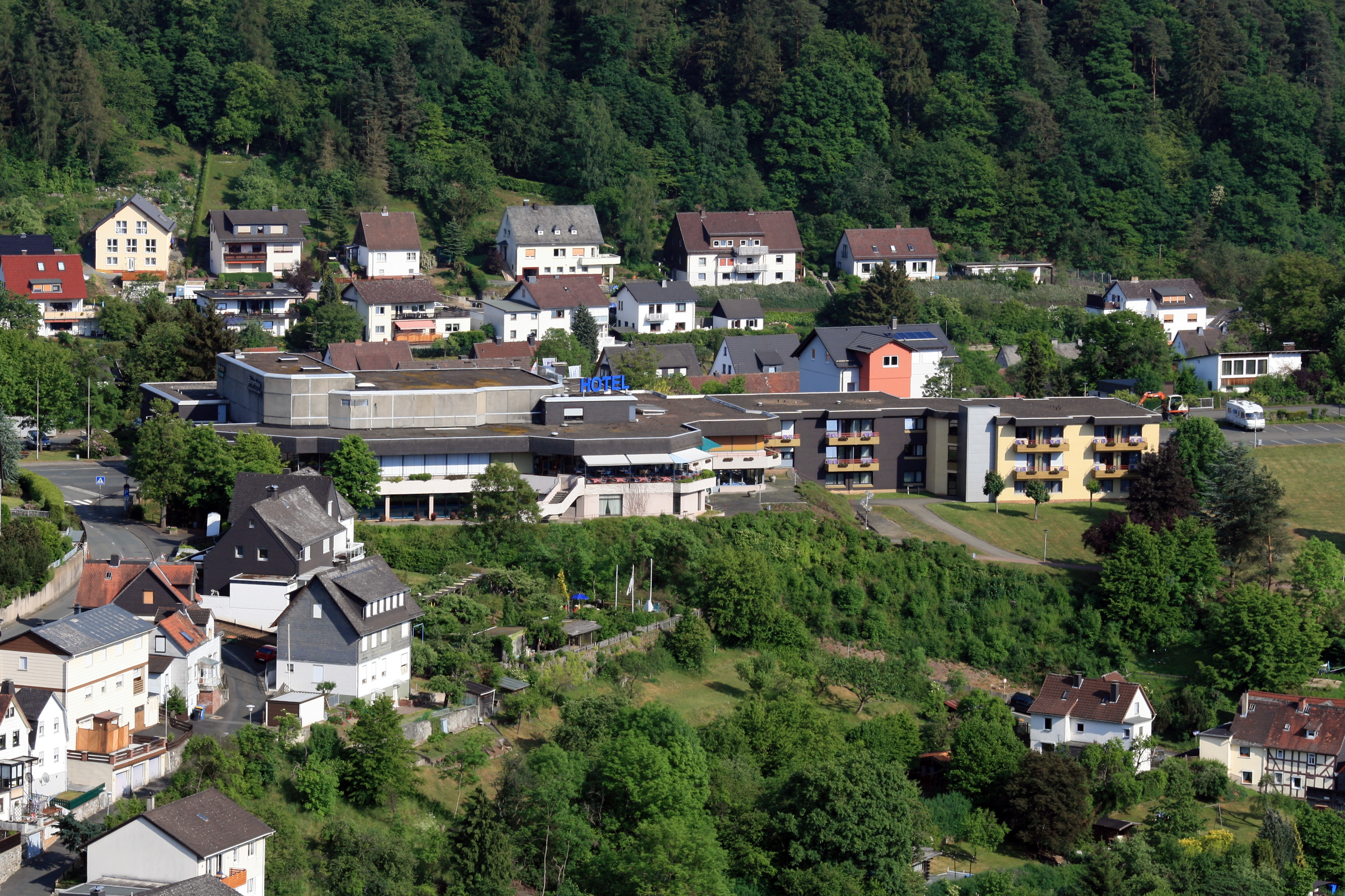 Germany, hesse, Biedenkopf/Lahn: Community center and connected park-hotel (before "Hotel Panorama") with restaurant and former municipal indoor swimming pool, located on the outskirts of the city park